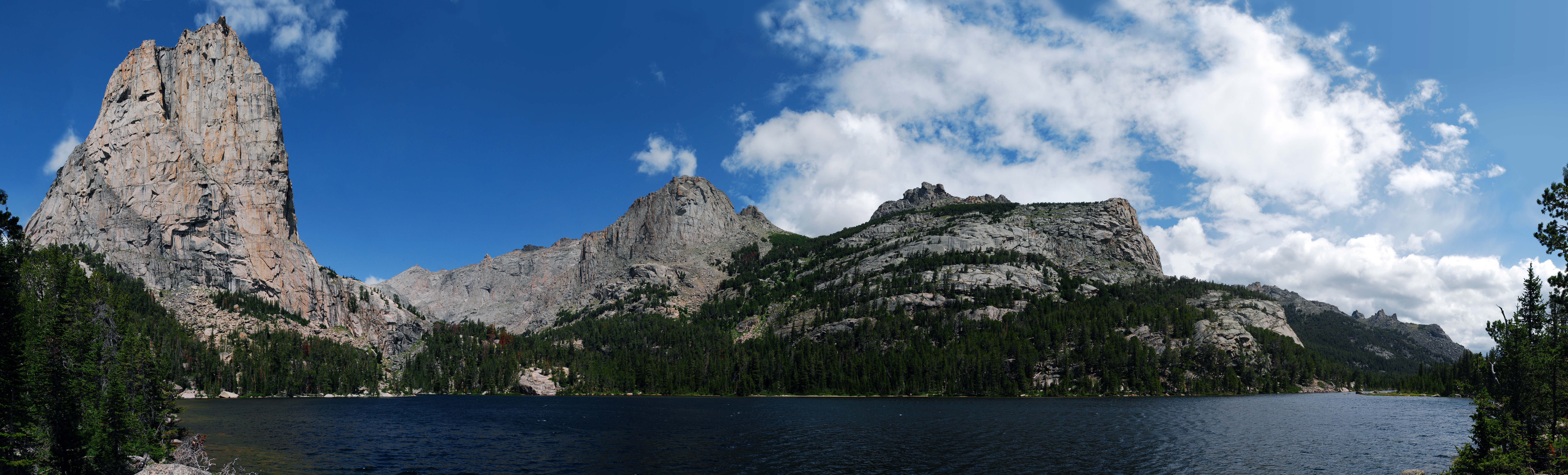 A panoramic of Cathedral Lake in the Wind Rivers. Note Cathedral Peak on the left.